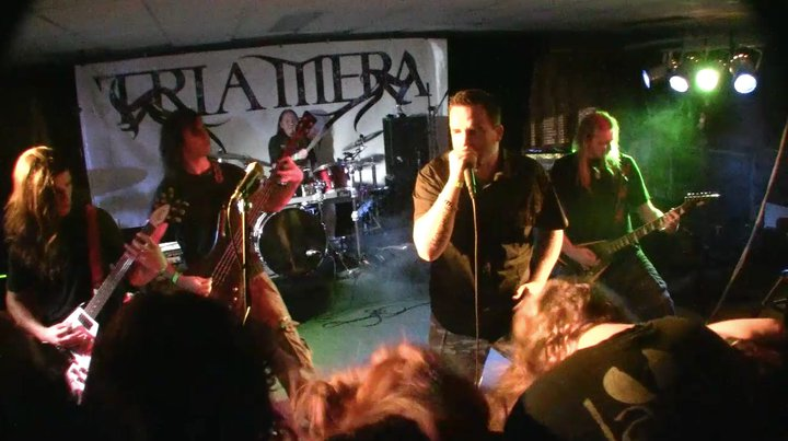 Tria Mera Live in 2011